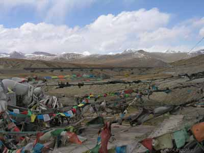 The Qingzang Railway of Tibet, at the Kunlun Pass south of Golmud. Photo by Andreas Gruschke